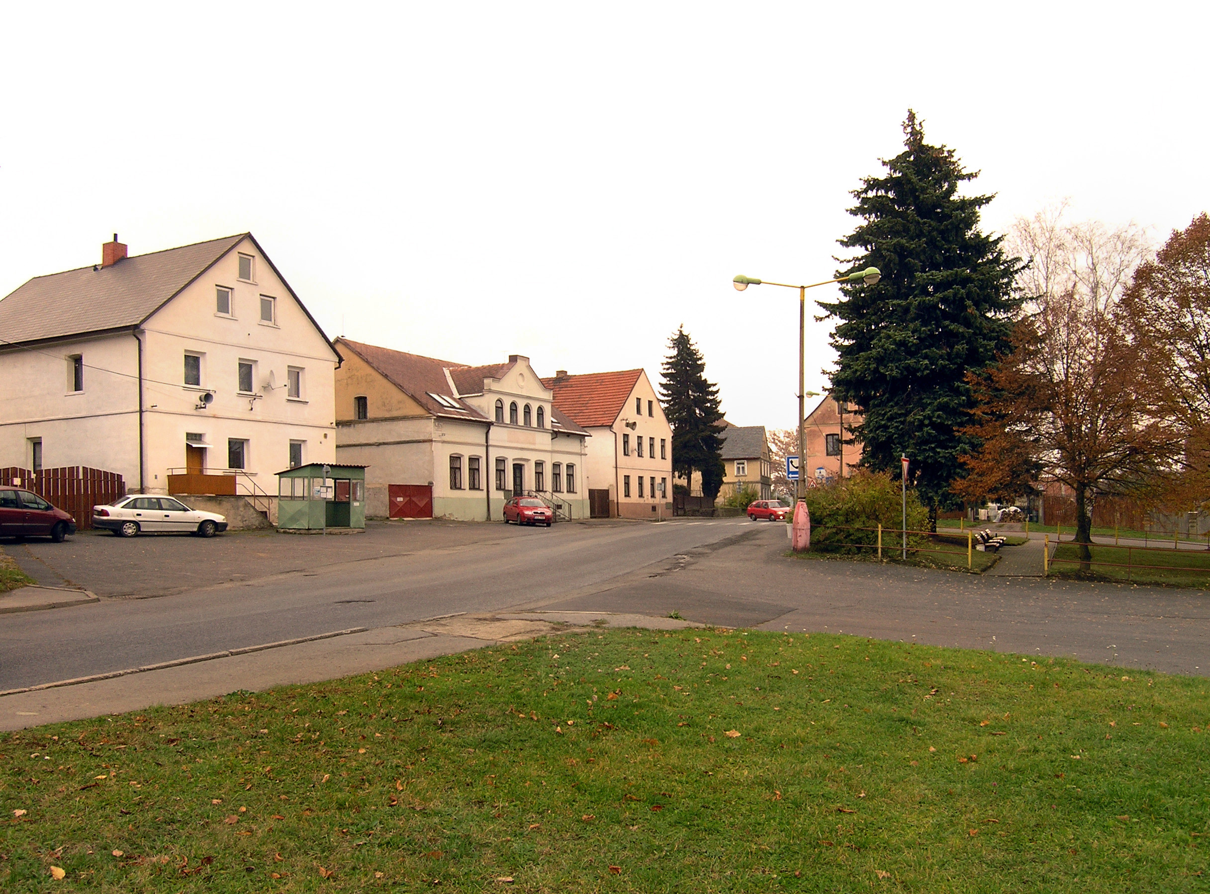 Main square in Stvolínky village, Czech Republic